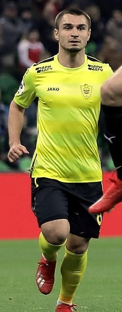 Shakhban Gaydarov with FC Anzhi Makhachkala in a game against FC Krasnodar.